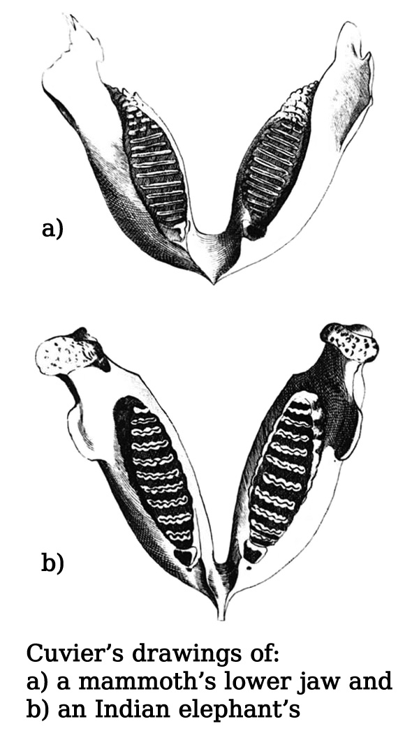 Figure of the jaw of an Indian elephant and the fossil Jaw of a mammoth from Cuvier's 1798–99 paper on living and fossil elephants